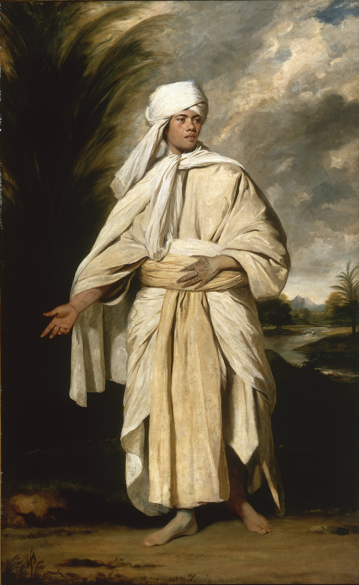 Portrait of Omai, a South Sea Islander who travelled to England with the second expedition of captain Cook